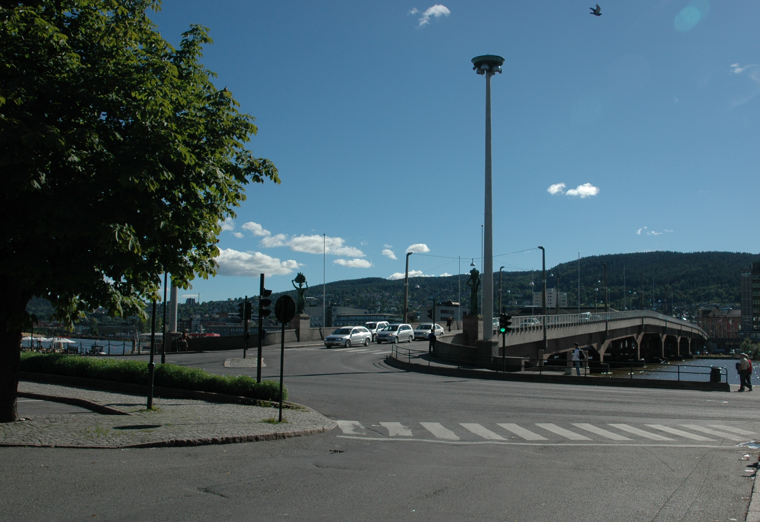 View of the city bridge, from Bragernes square.